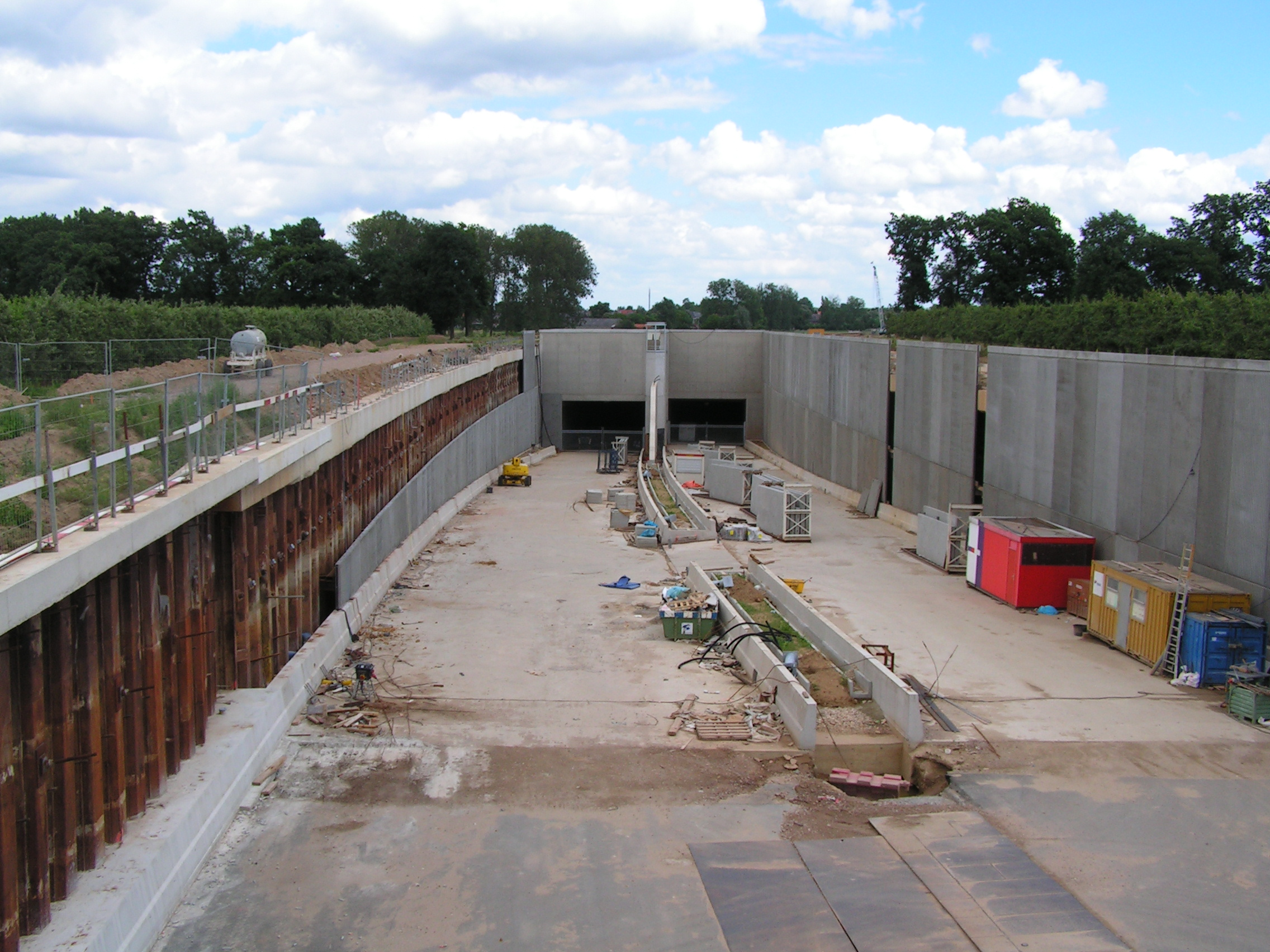 Southern entrance of the Roertunnel which is part of the A73 motorway.